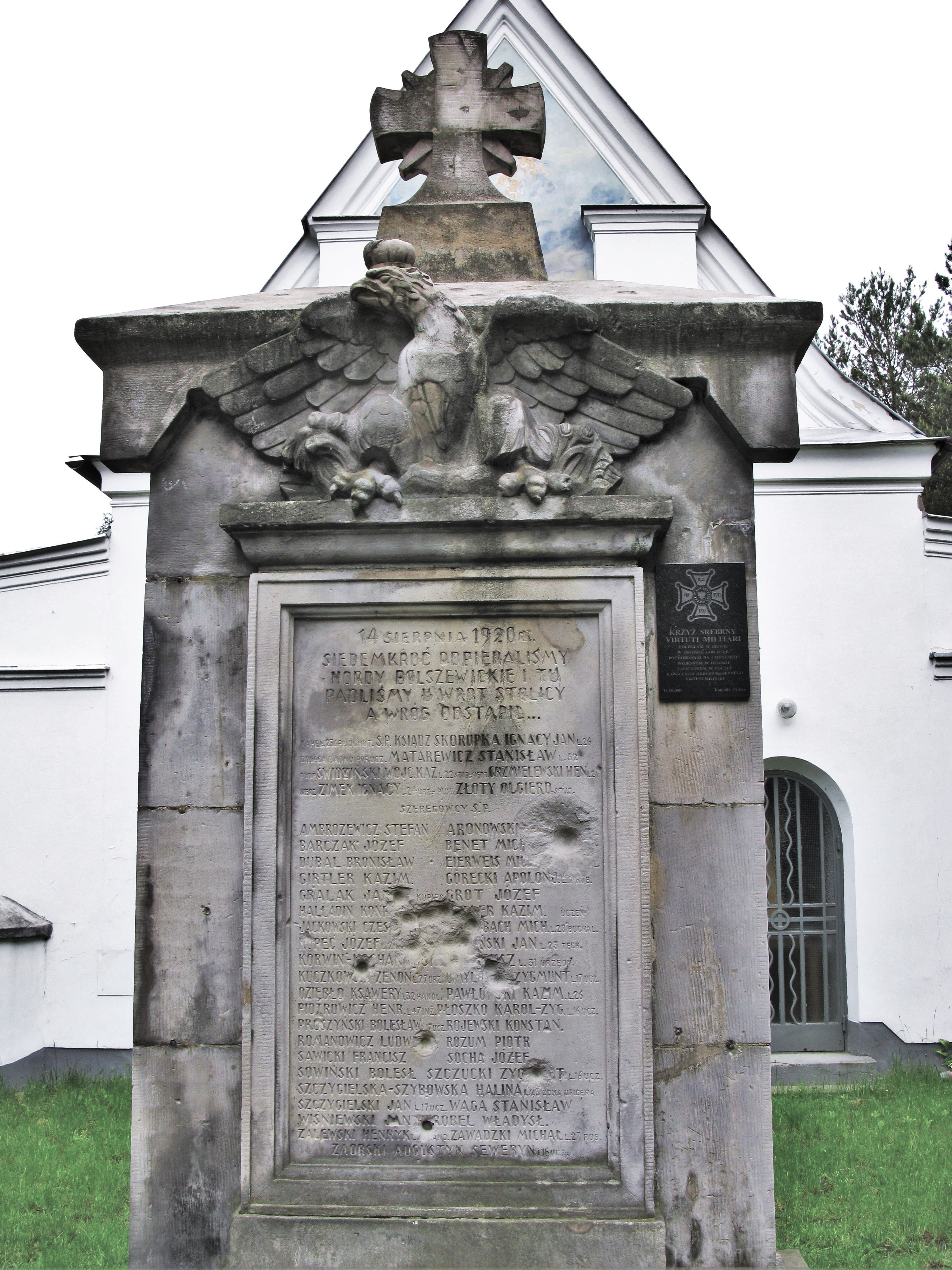 Monument on cemetery of Polish victims of battle of Ossów 1920 (Polish-bolshevik war).